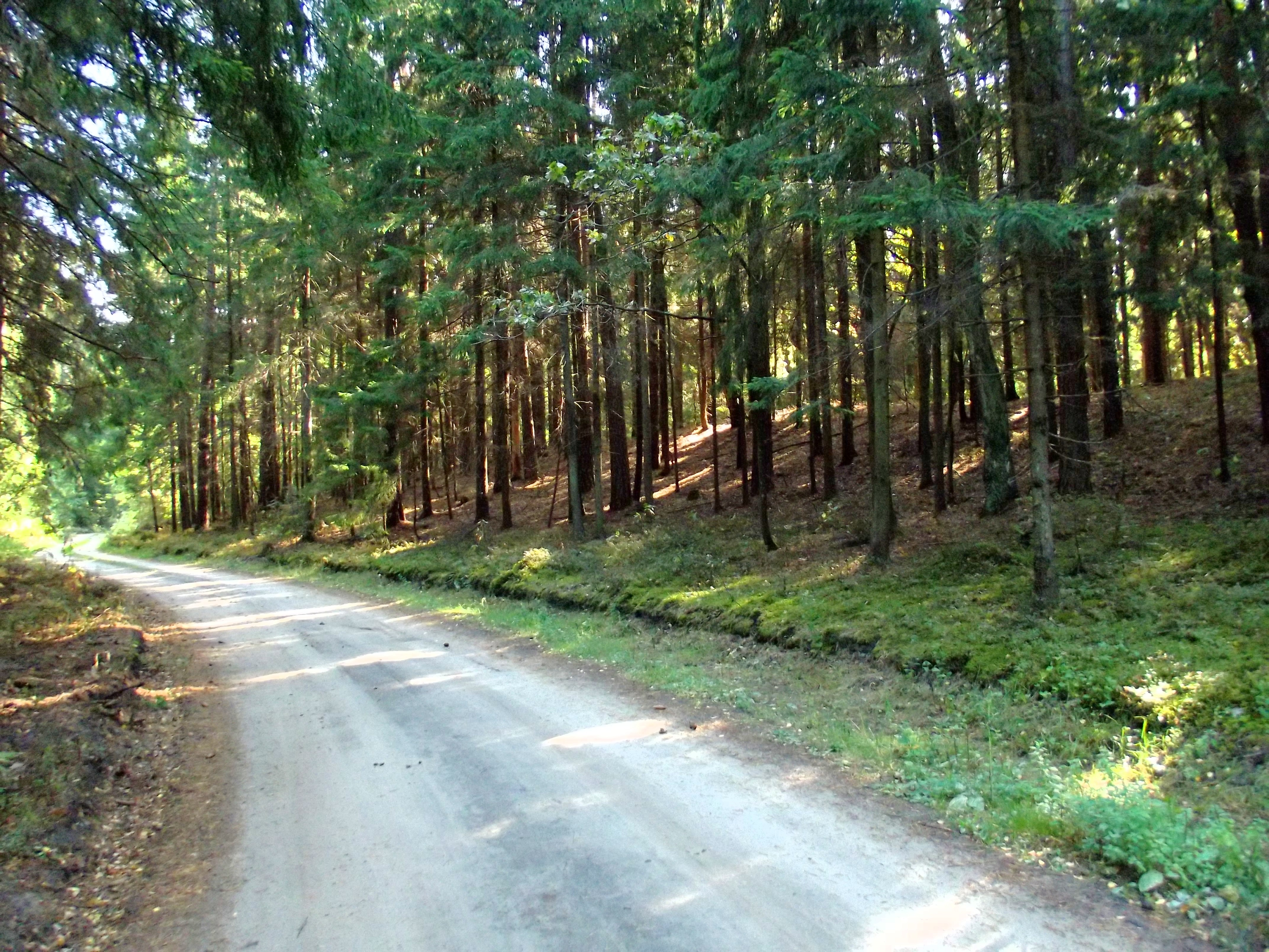 Rumšiškės forest, Kaišiadorys district, Lithuania